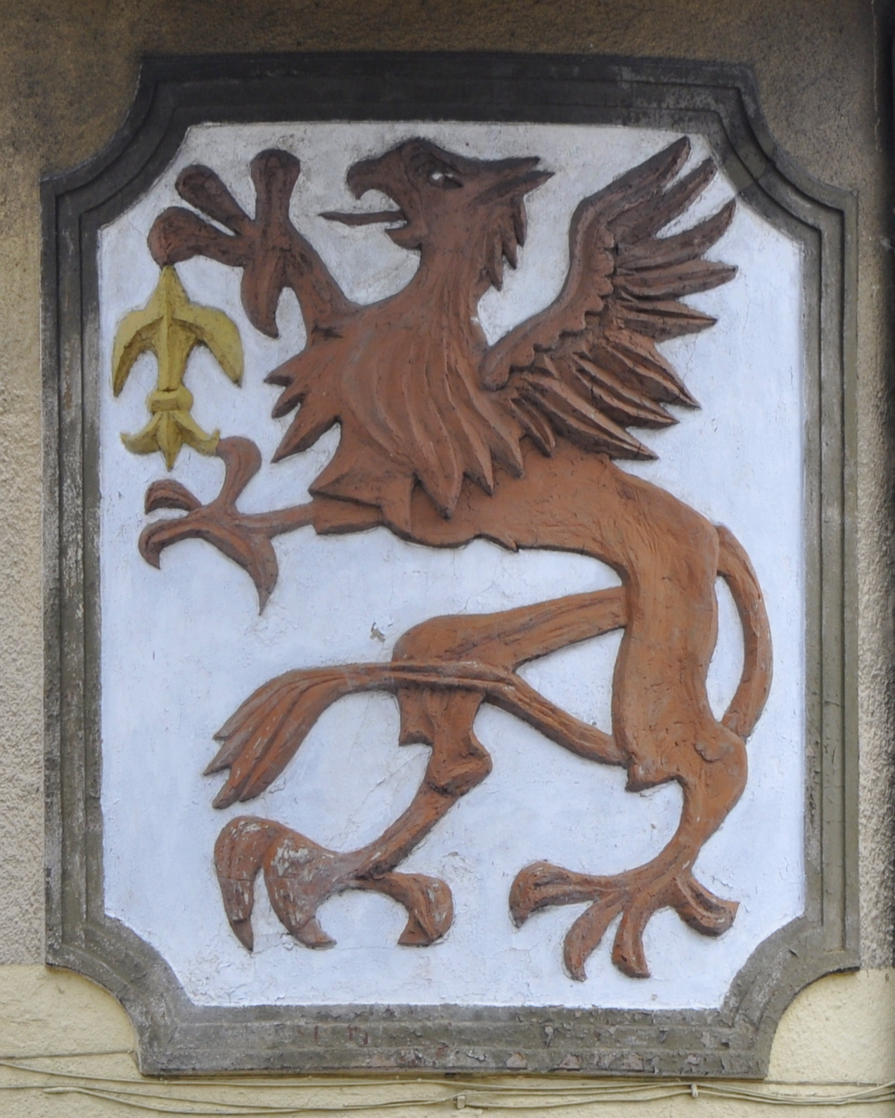 Town's emblem of Gryfice on Stanisław Rut Street